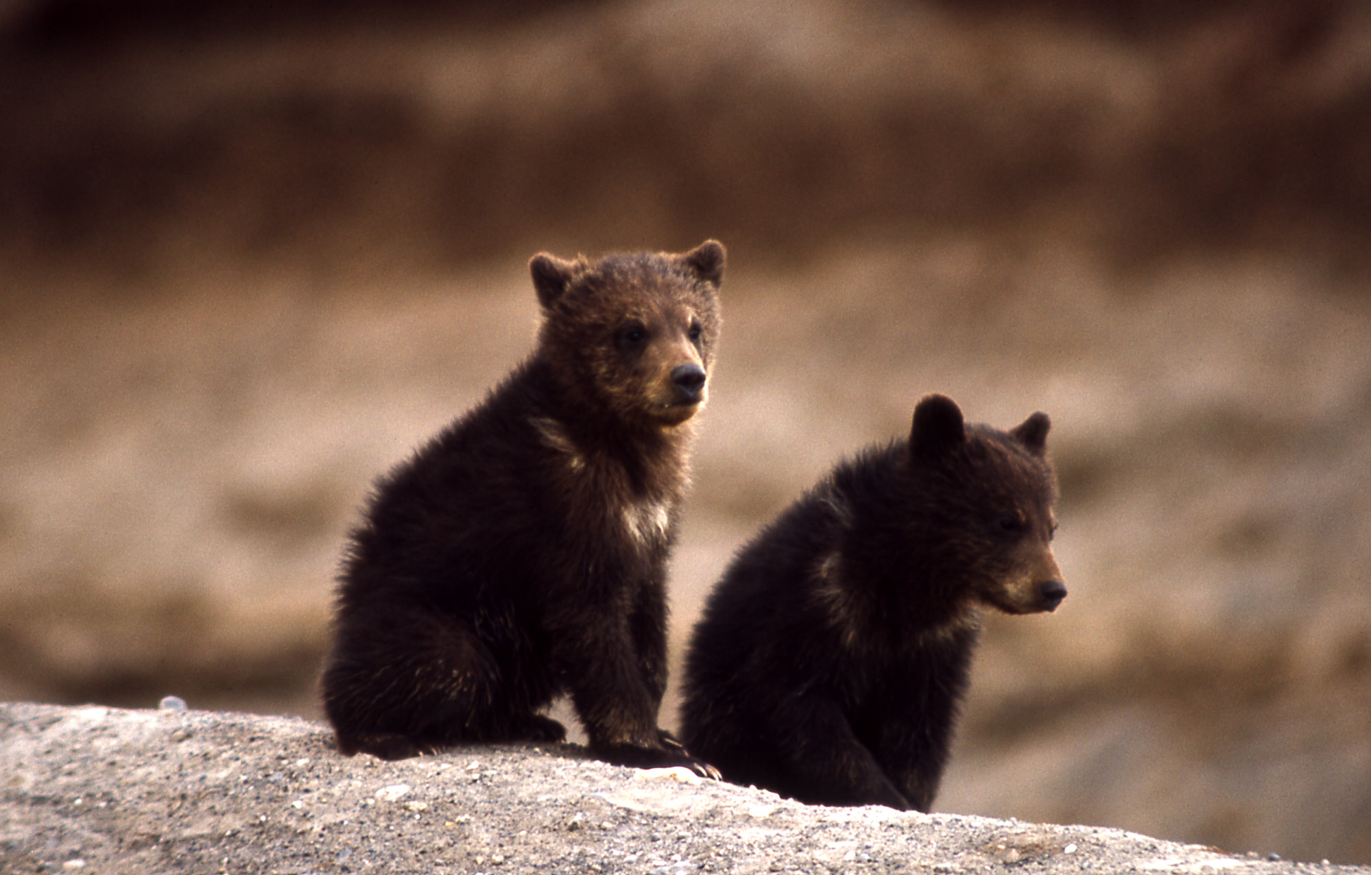 Grizzly bear (Ursus arctos horribilis) cubs.